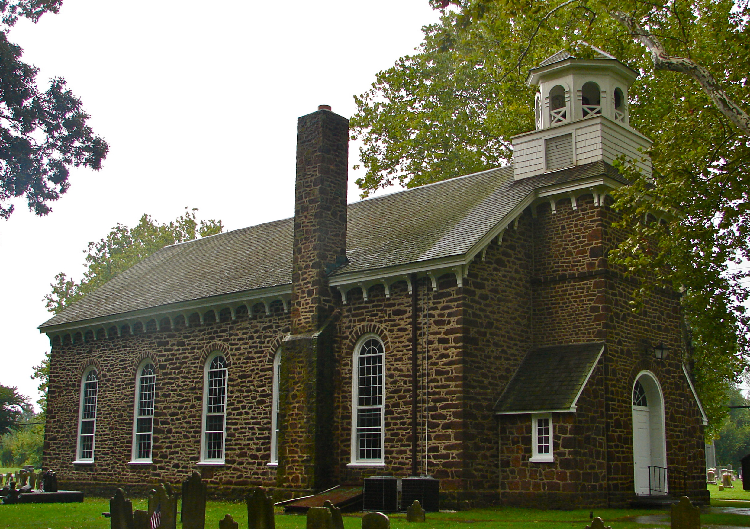 Deerfield Presbyterian Church on the NRHP since September 29, 1980 . Located NE of Seabrook, New Jersey on Old Deerfield Pike (State 606) in Deerfield Township, Cumberland County, NJ